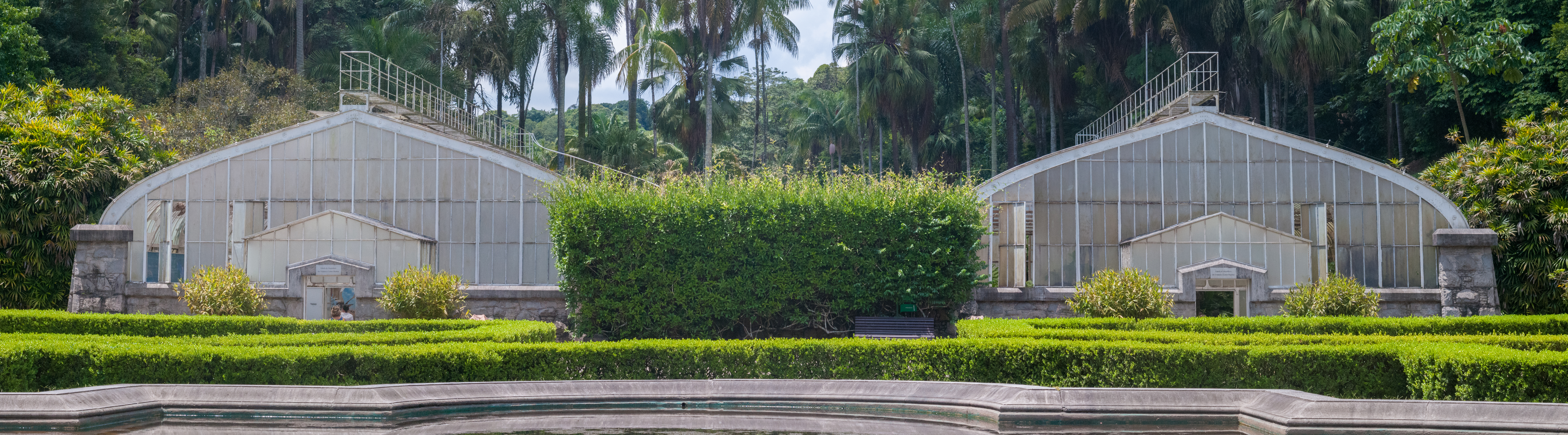 Jardim Botânico de São Paulo